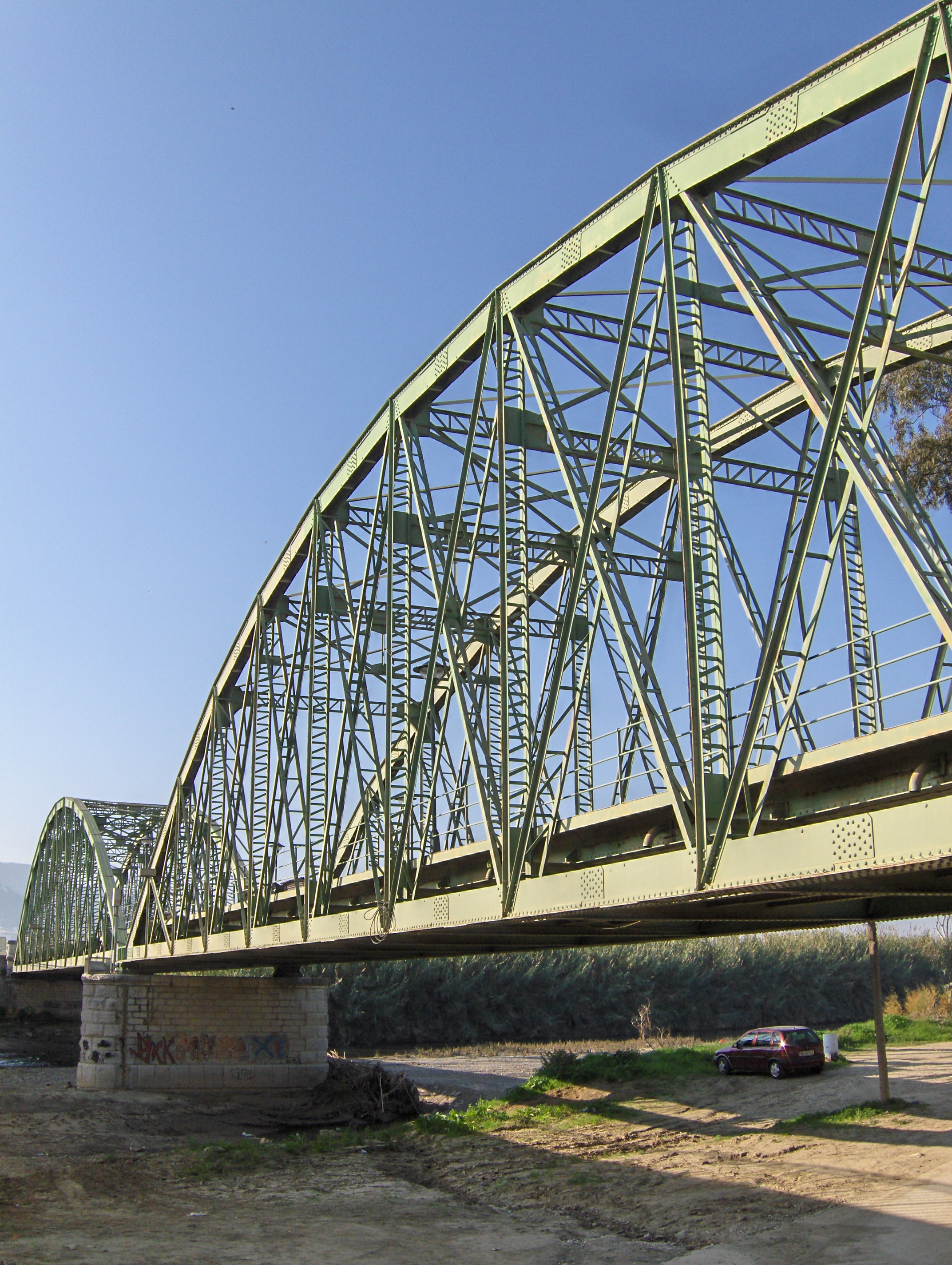 Puente de Cártama sobre el río Guadalhorce. Obra de Rafael Benjumea, 1928